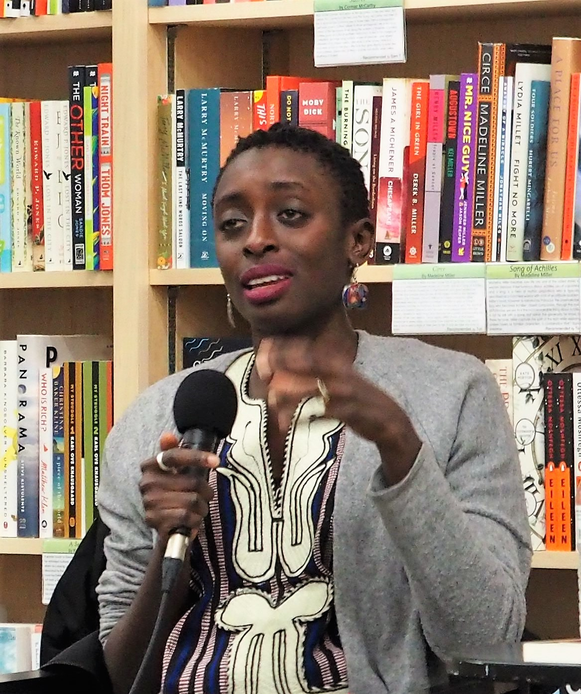 reading at Politics and Prose Wharf, Washington, D.C.